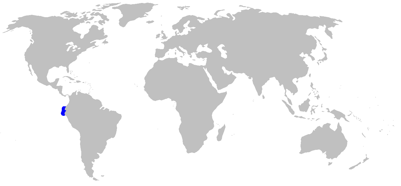 Distribution map for Triakis acutipinna